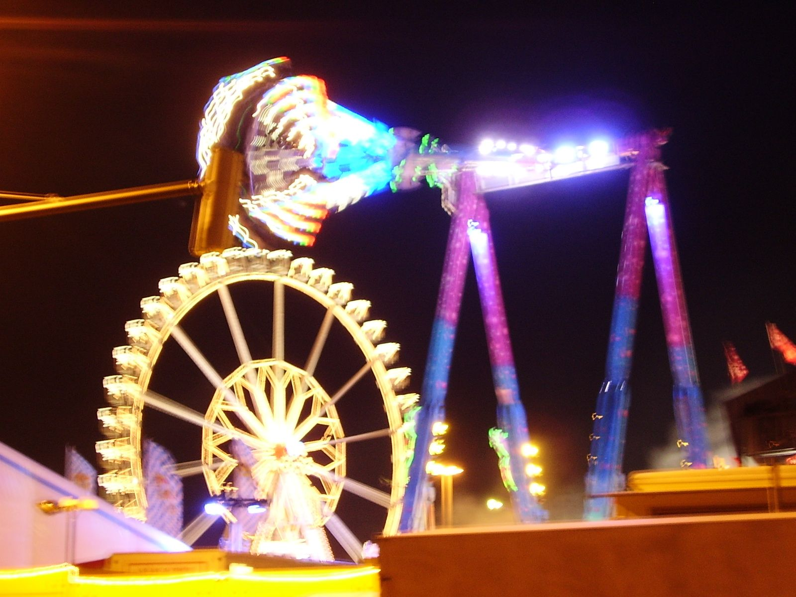 Ship-caourusel in Freimarkt, Bremen